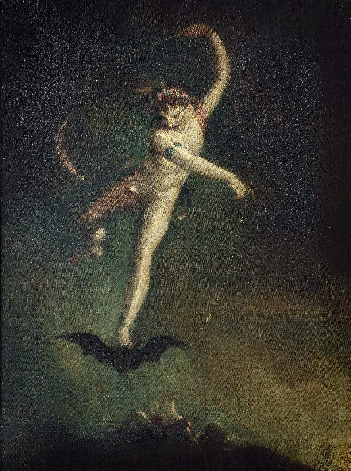 From Act V, Scene 1 of William Shakespeare's The Tempest